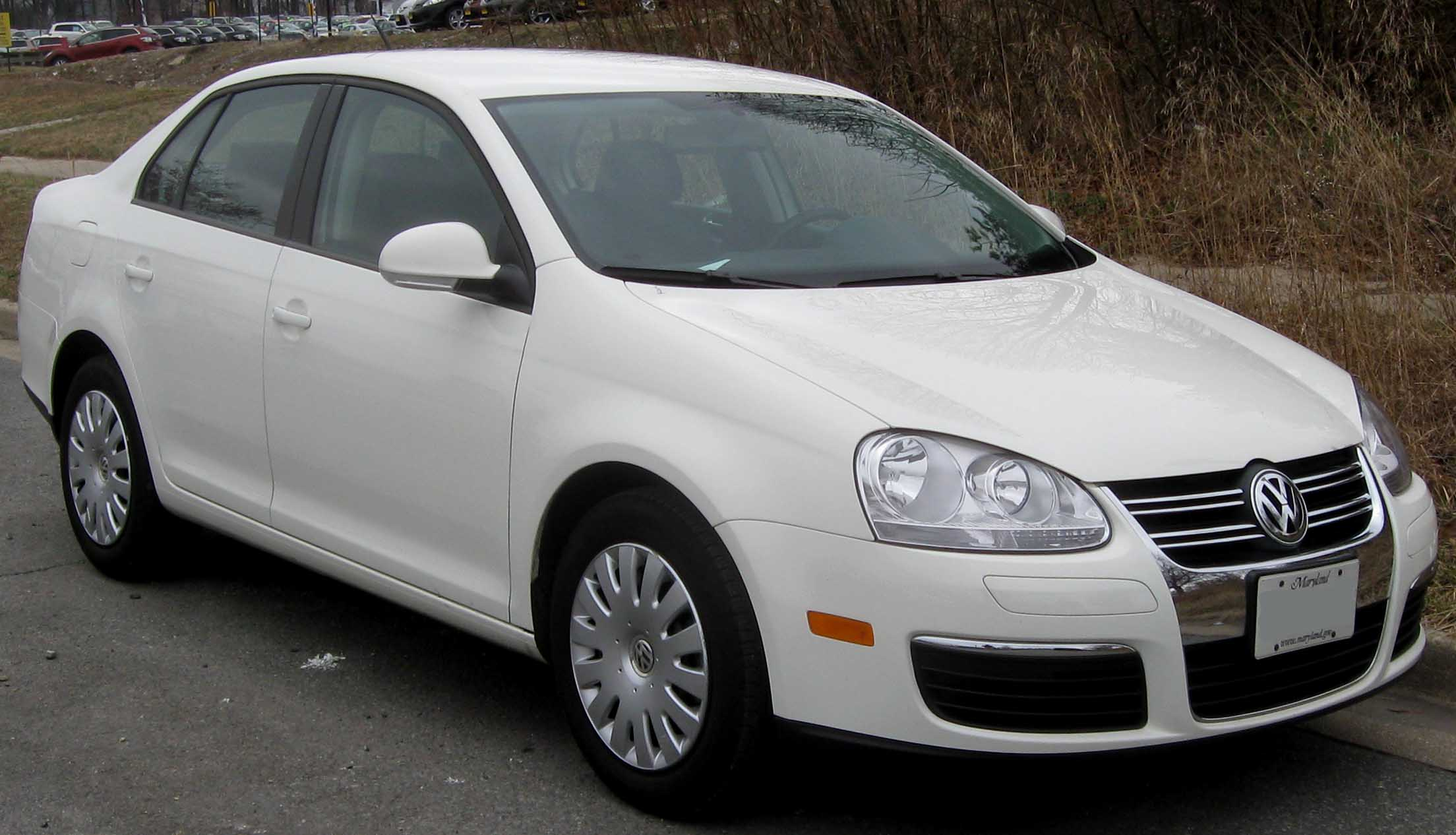 2006-2009 Volkswagen Jetta photographed in Silver Spring, Maryland, USA.